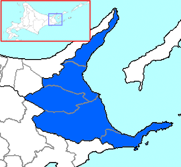 The map of Nemuro Subprefecture in Hokkaido Prefecture, Japan.